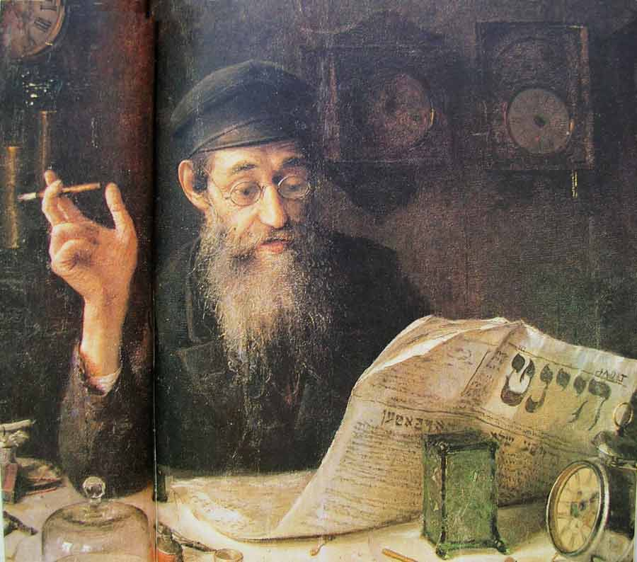 Watchmaker, 1914